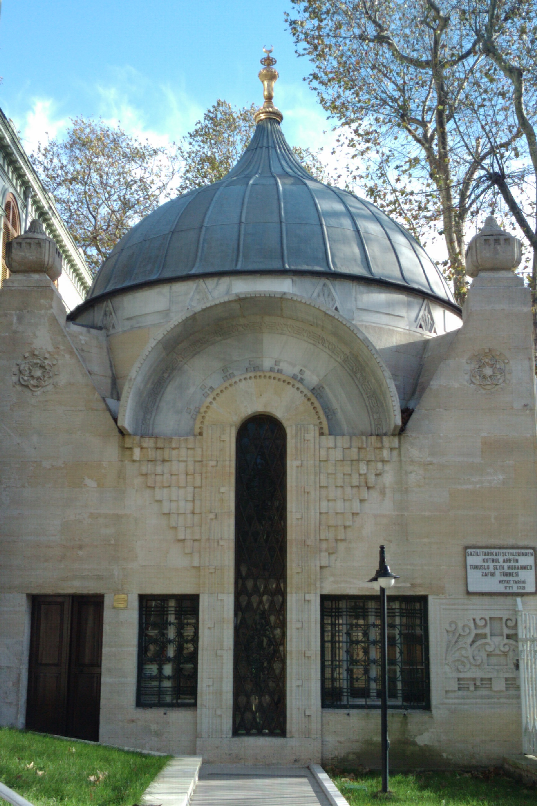 An exterior view of the türbe of Sheikh Zafir next to the Ertuğrul Tekke Mosque located in Yıldız neighbourhood of Beşiktaş district in Istanbul, Turkey.